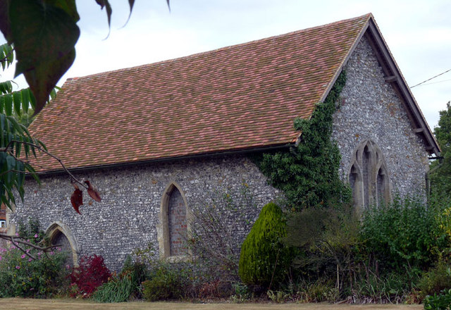 St Leonard's Chapel, Brimpton, Berkshire, viewed from the southeast. The chapel was built about AD 1100 for the Knights Hospitaller of the Order of Saint John of Jerusalem and altered in the 14th century. After the English Reformation the chapel was desecrated and converted into a barn.